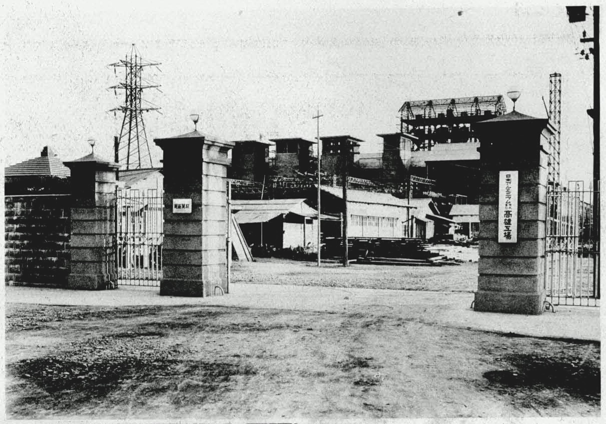 Takao Factory of the Japan Aluminium Company